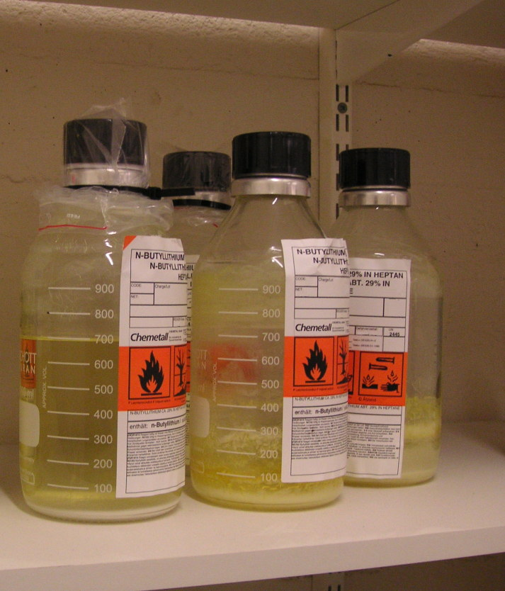 Bottles of n-butyllithium. Note: Image manipulated to remove company-internal markings. If reusing this image, you must attribute it to Wikipedia. That is, you must make it clear that it originates from Wikipedia and is publicly available under a free license. Do not claim it as your own work, claim copyright on it, or claim that it is exclusively available from you, whether for a charge or no charge.